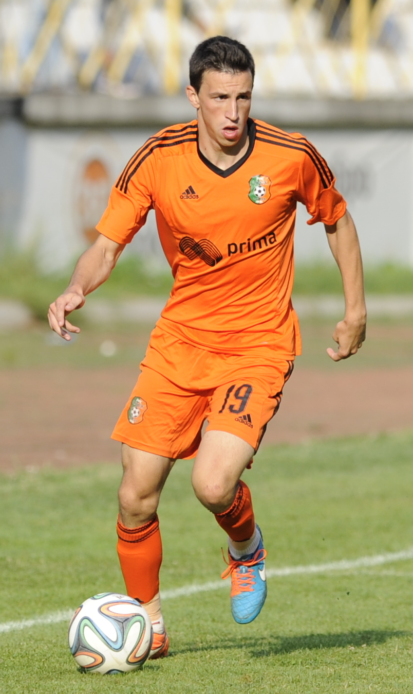 Rumen Rumenov